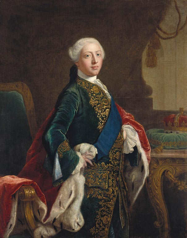 George III shortly before ascending to the throne, when Prince of Wales